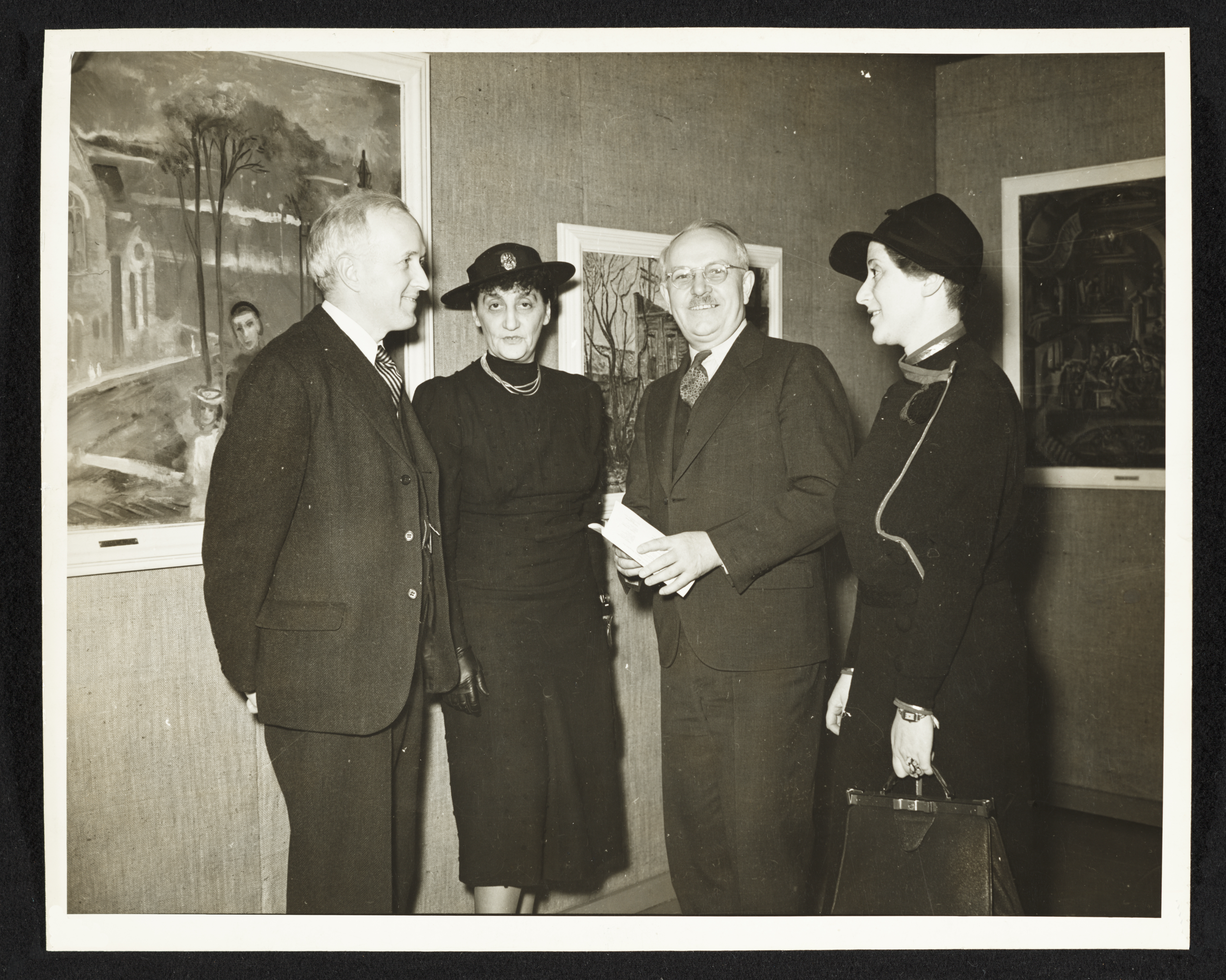 A photograph of a group of people. Audrey McMahon is second to left and Holger Cahill is third from left. Identification on verso: (handwritten) Center Left Audrey McMahon, Center Right Holger CahillExhibition Dept.-Illinois, Opening 7575F. Gallery Show2/15/38Photographer: Eisenman